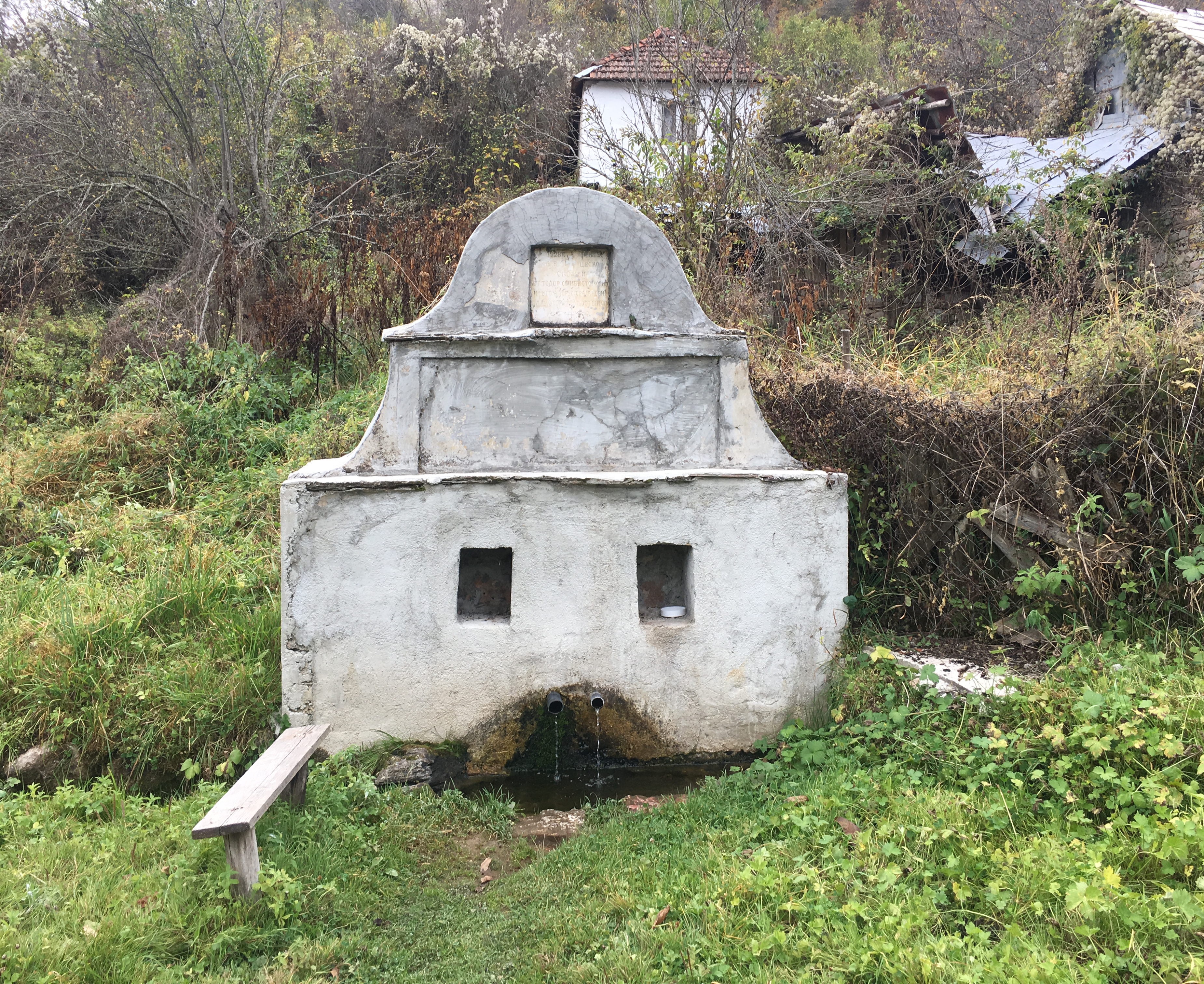 Wikiexpedition to Kopačka